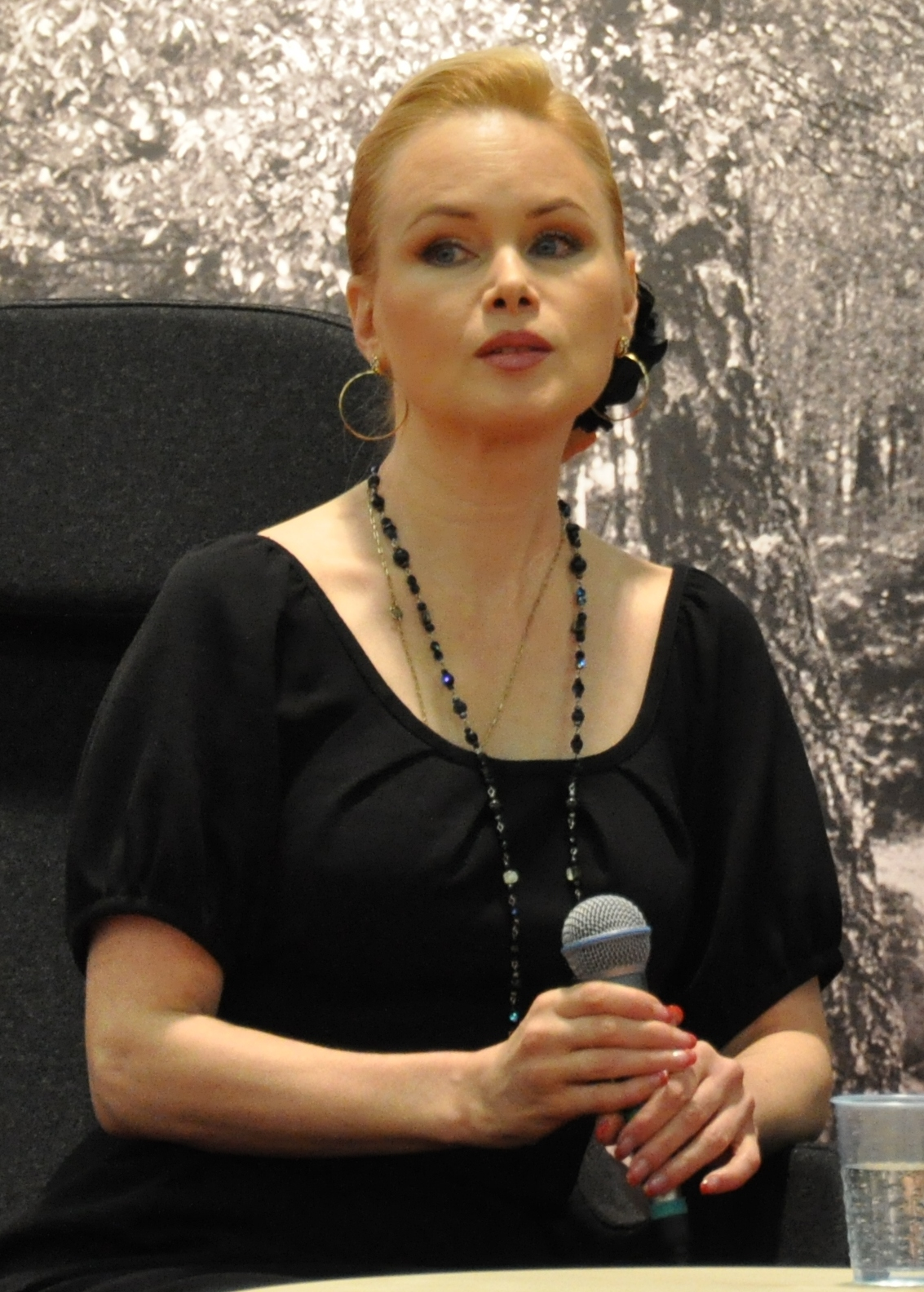 Finnish singer and make up artist Helena Lindgren at the Helsinki Book Fair 2009.